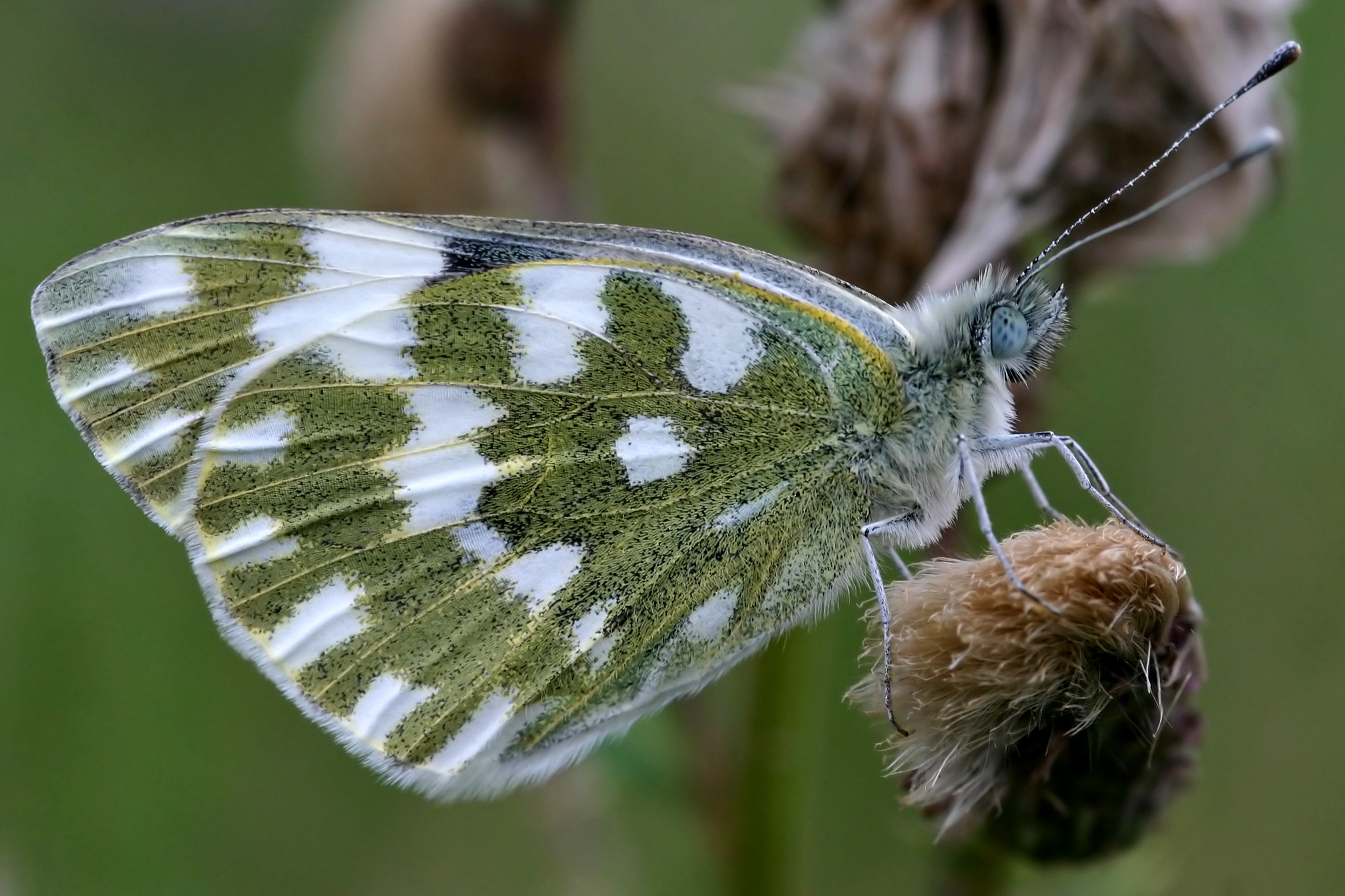 Bath White; Germany, Saxony-Anhalt, Halle, Bruchsee near Zscherben